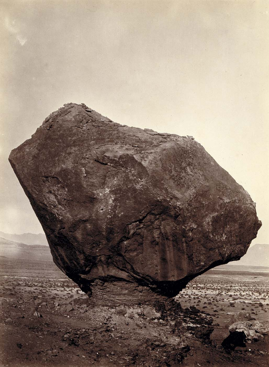 Perched Rock, Rocker Creek, Arizona This mounted print was part of an album titled Photographs. Explorations and Survey West of the Hundredth Meridian 1871, 1872 and 1873, the Wheeler Survey.